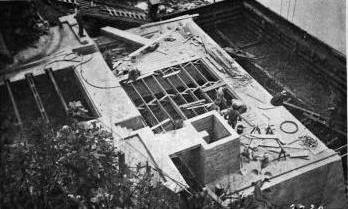 Construction work at the Great Falls Dam site near Rock Island, Tennessee, United States, showing the concrete entrance to the dam's diversion tunnel and a portion of a coffer dam.